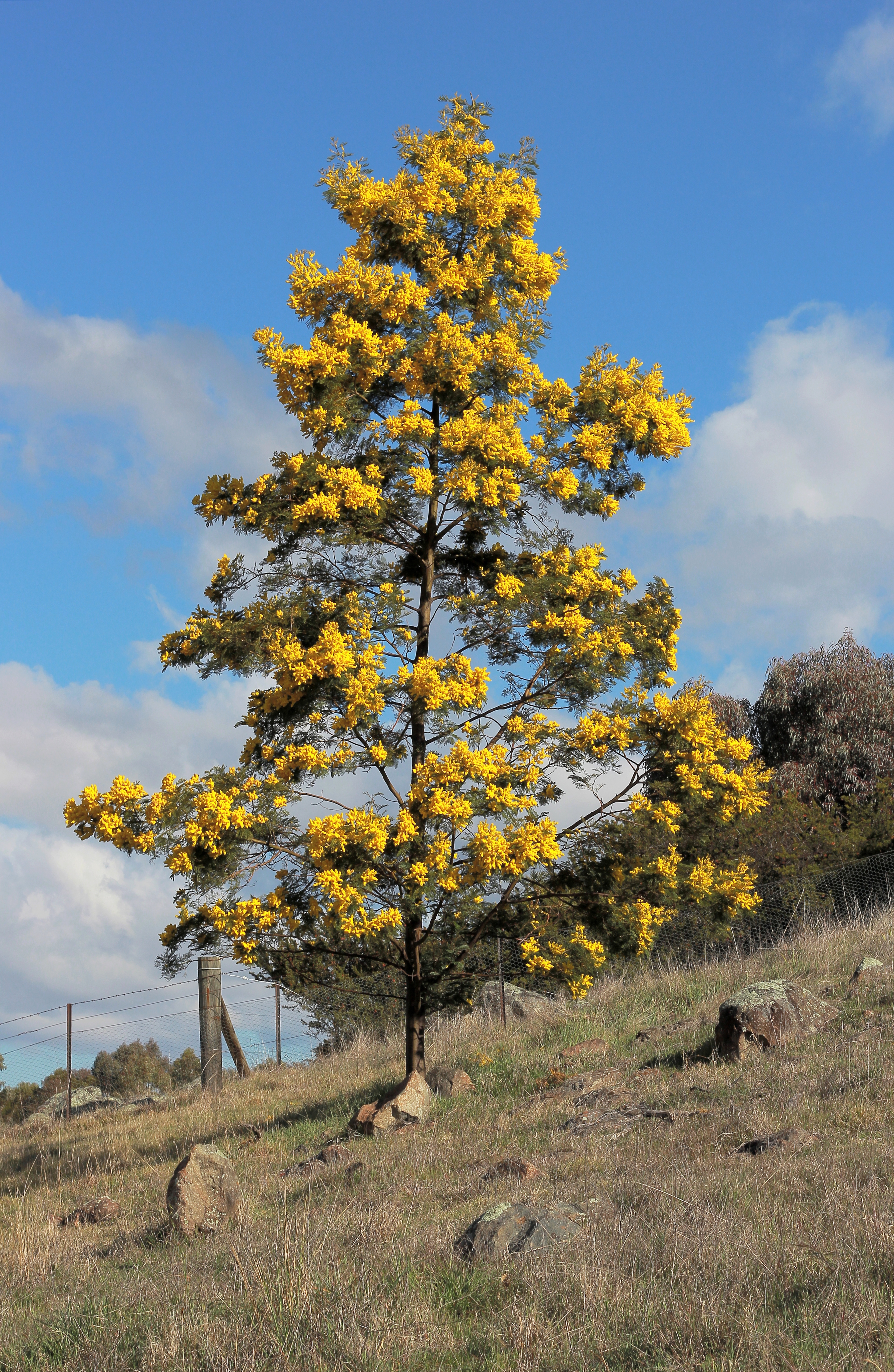 A Cootamundra wattle on a sunny late-winter afternoon in Canberra, ACT, Australia.